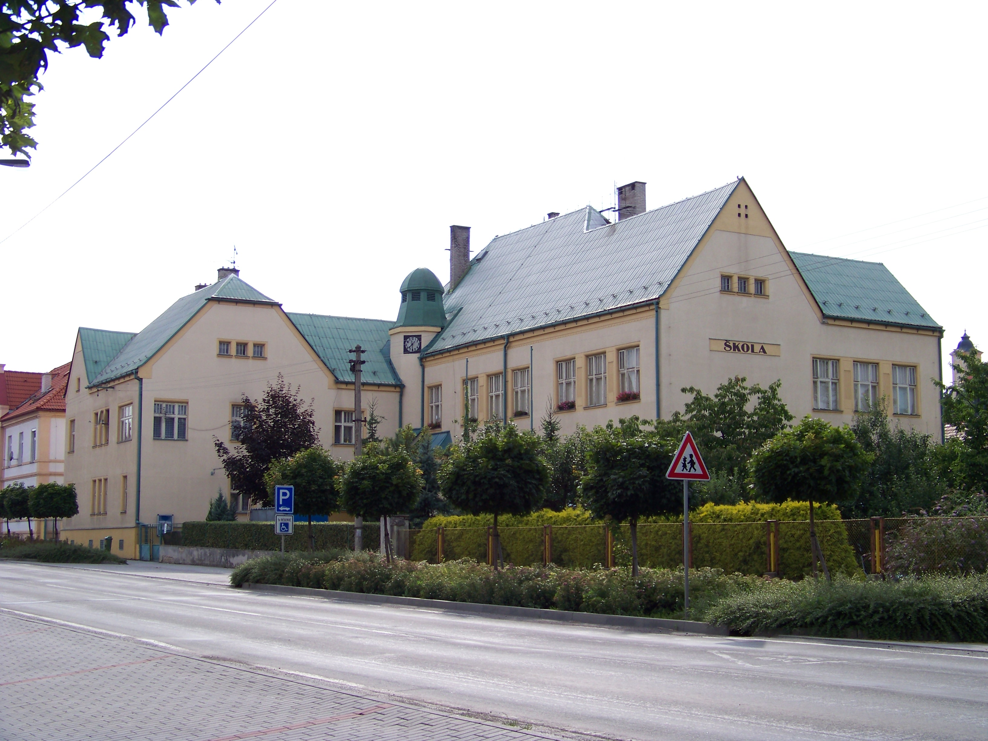 Králův Dvůr-Počaply, Beroun District, Central Bohemian Region, the Czech Republic. Plzeňská street, the former German school, now Elementary school and city library.